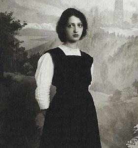 The young Clara Haskil